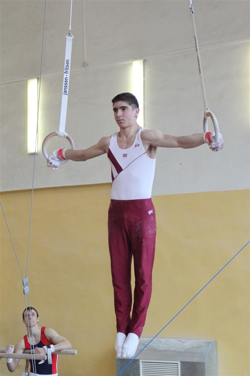 Sergey Poznyakov on the Rings exercise